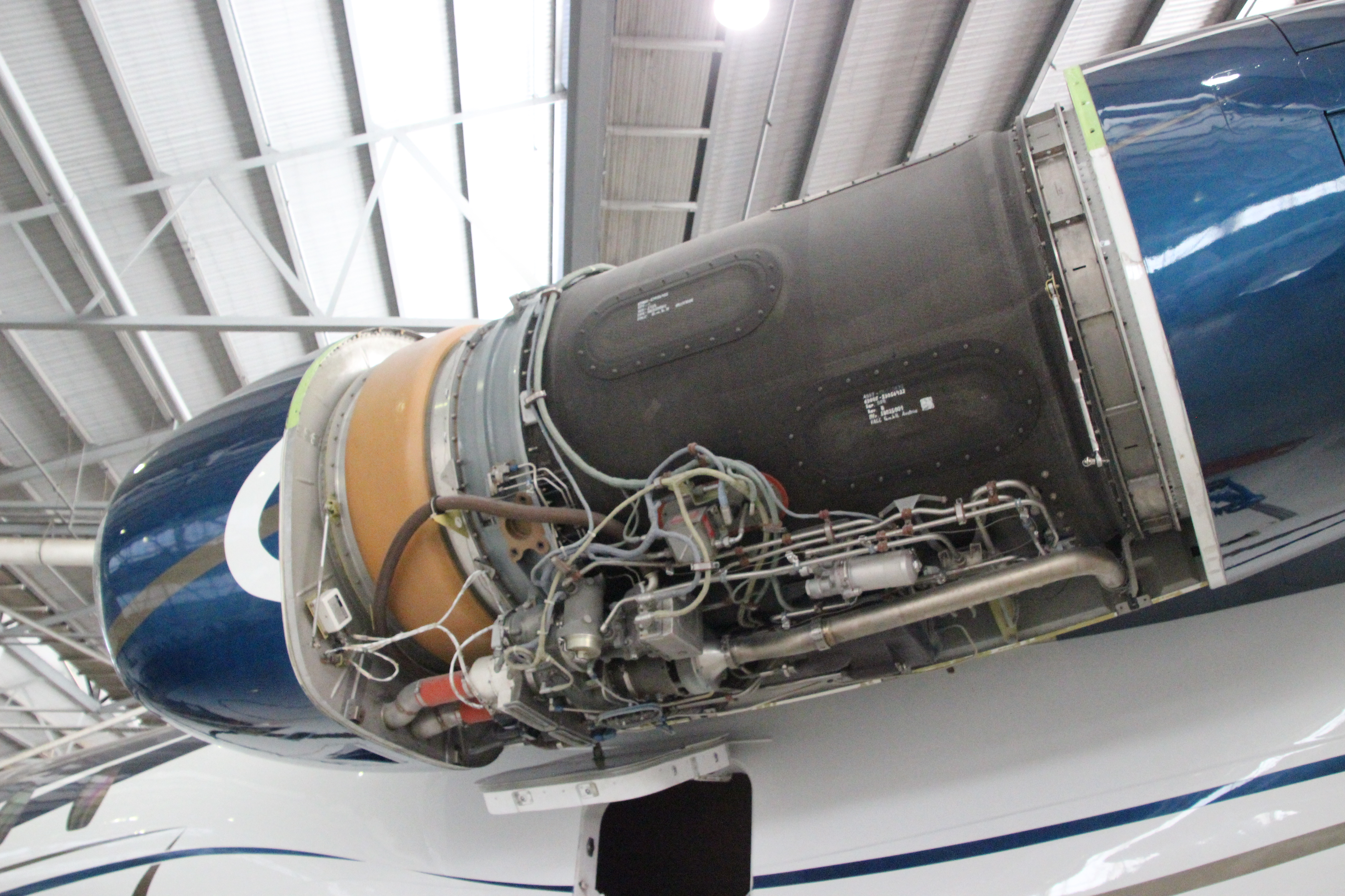 A Rolls-Royce AE 3007 engine, installed at the No.1 position (left side) of a Cessna Model 750 Citation X. Digital image taken by YSSYguy on 4 November 2014, for use in the Rolls-Royce AE 3007 article. YSSYguy (talk) 05:06, 4 February 2015 (UTC)